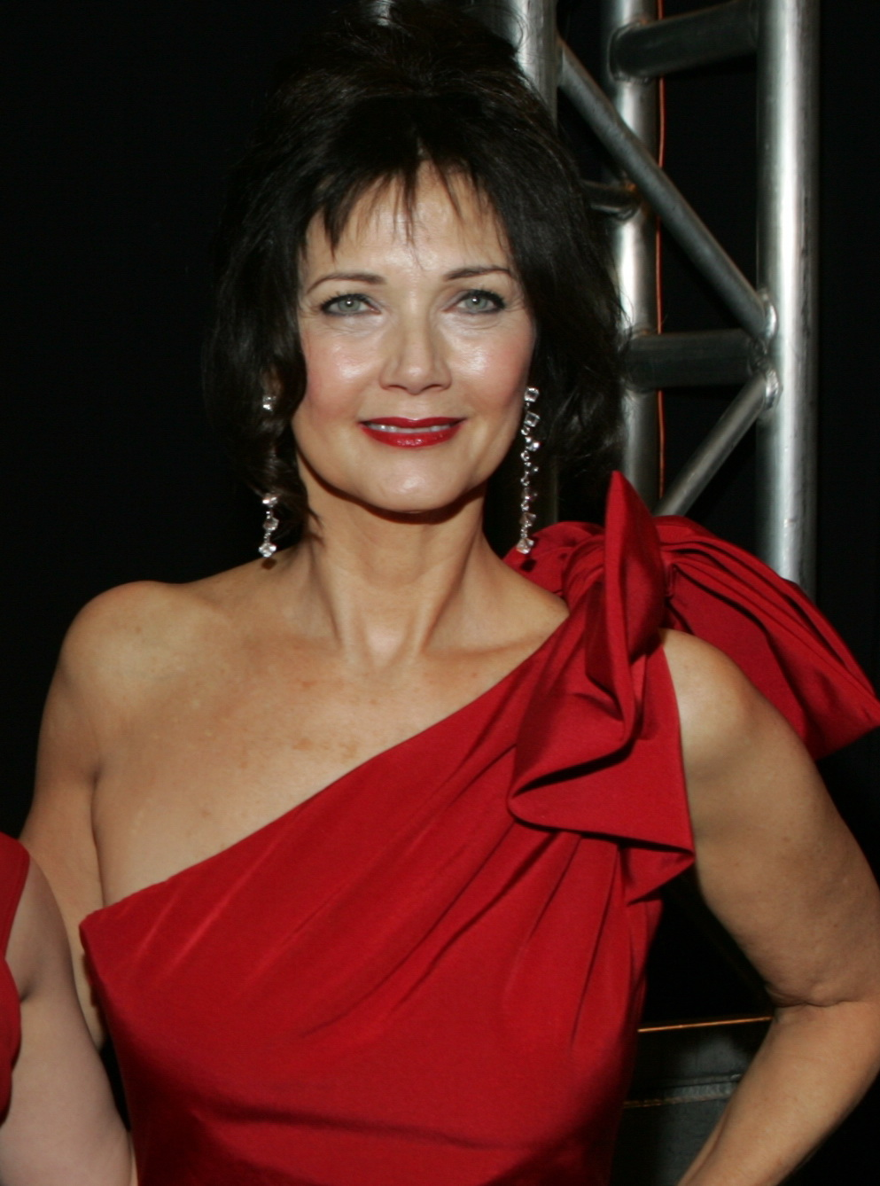 Lynda Carter backstage at the 2009 The Heart Truth's Red Dress Collection Fashion Show.